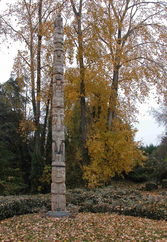 A totem pole in East Montlake Park, Seattle, Washington, USA. A plaque indicates it was carved by John Dewey Wallace of Waterfall, Alaska, in 1937.